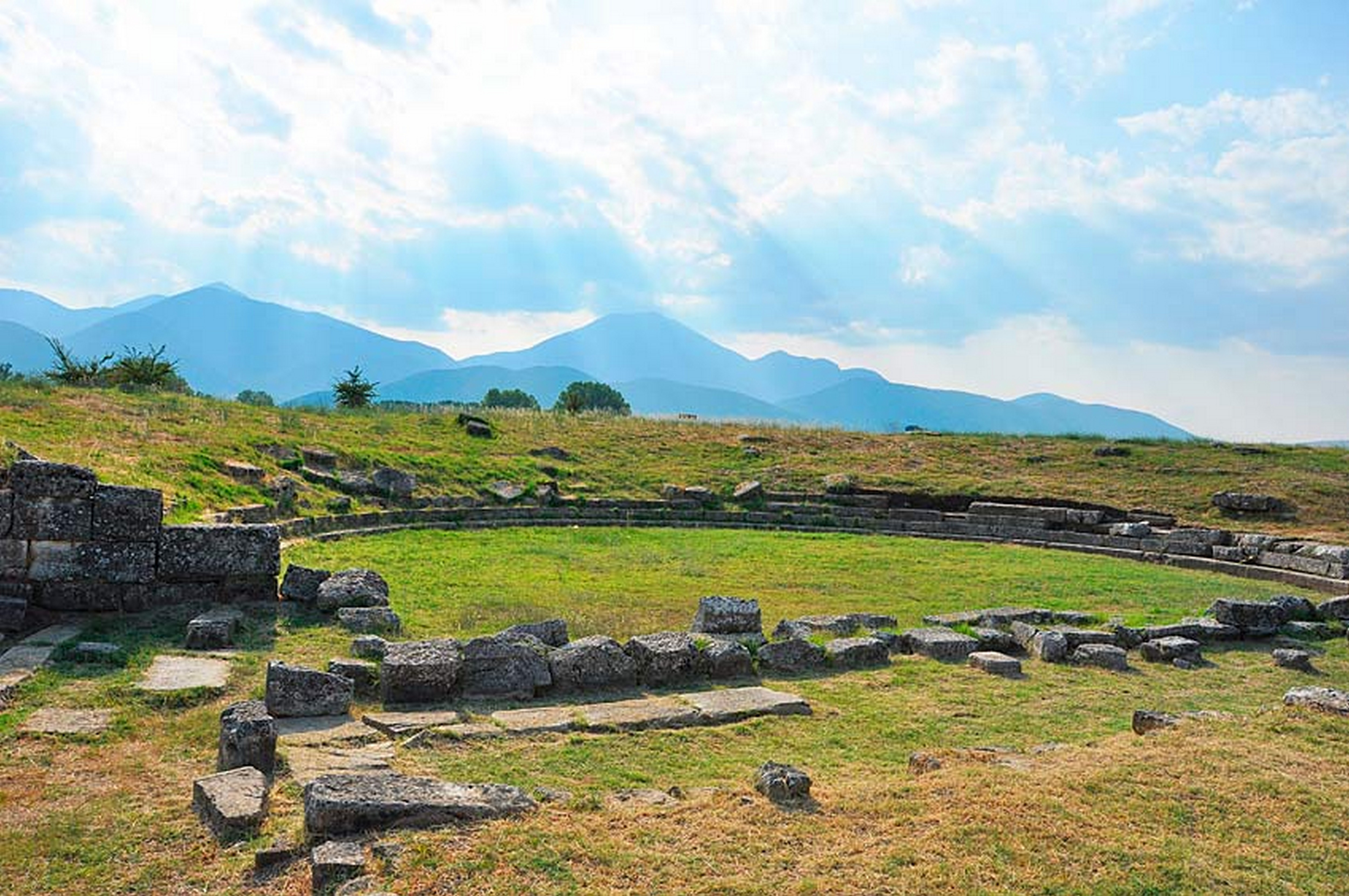 Ancient Theater of Mantinia